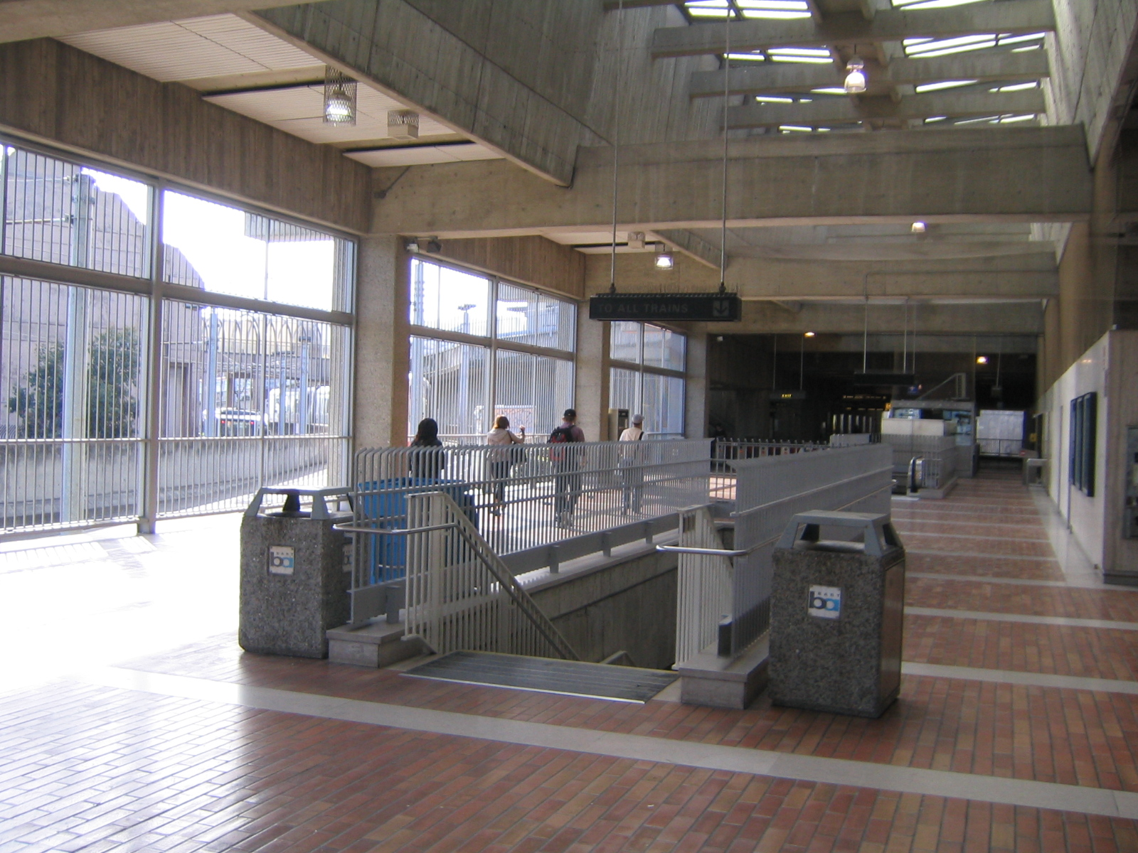 Concourse of the Balboa Park BART Station, February 16 2007